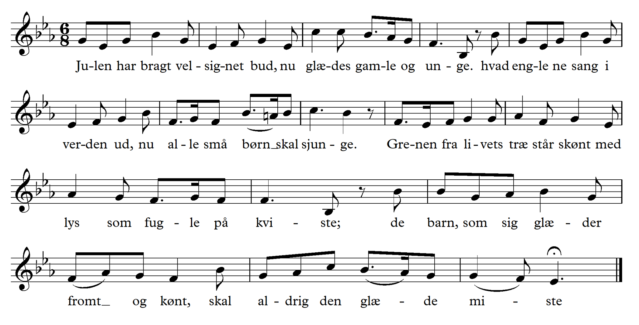 Christmas has made a blessed offer.Christmas has brought forth well-signed bids, now happy and young, what angels are singing in the world, now all the small children. The branch from the tree of life stares with light like birds on the road; the children who are delighted and never have to lose that joy